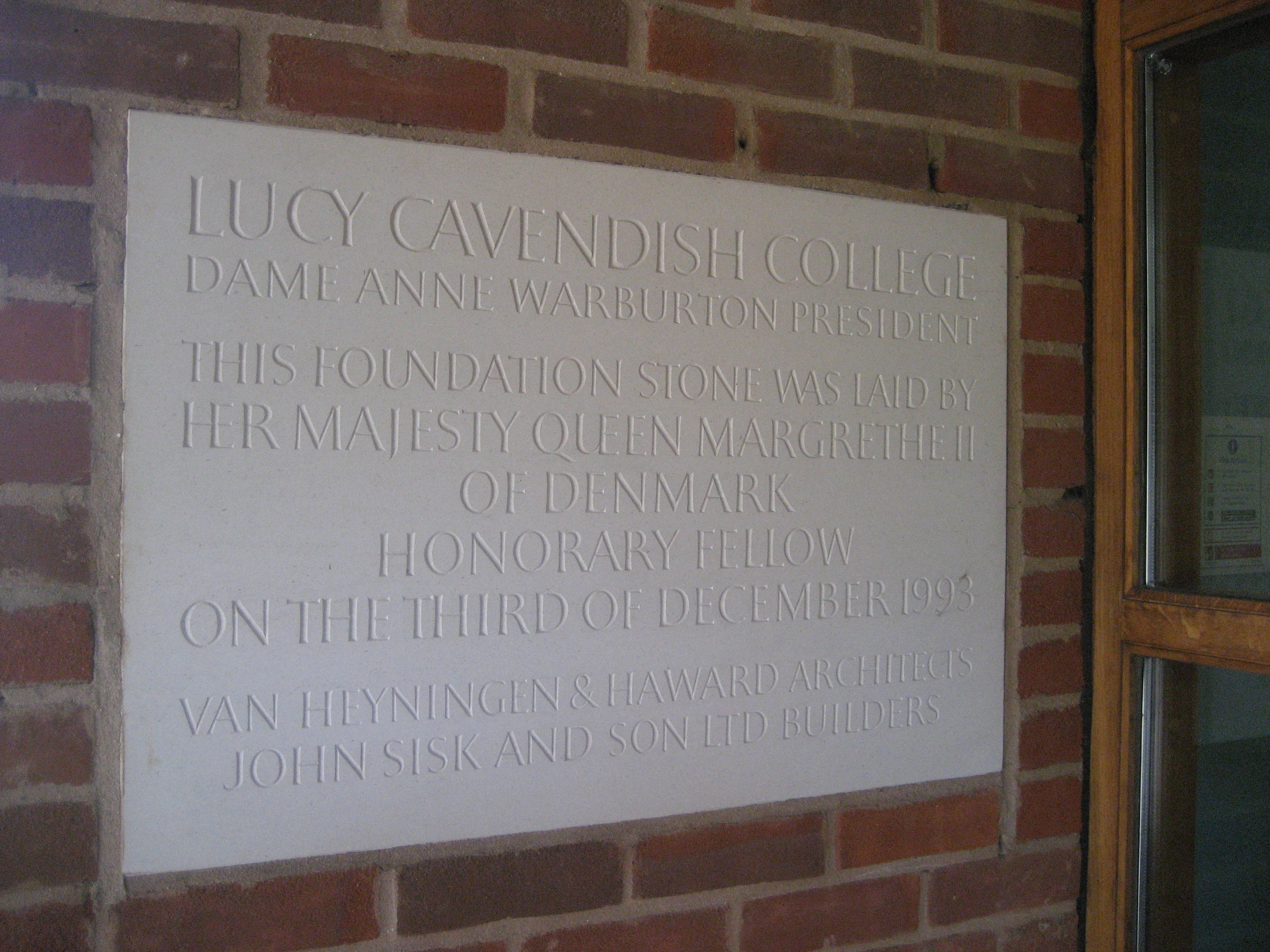 Lucy Cavendish College, Cambridge, England (UK) (Anne Warburton, President). Stone laid by Queen Margrethe II of Denmark on 3 Dec. 1993. Builders: John Sisk and Son; architects: Van Heyningen & Haward.